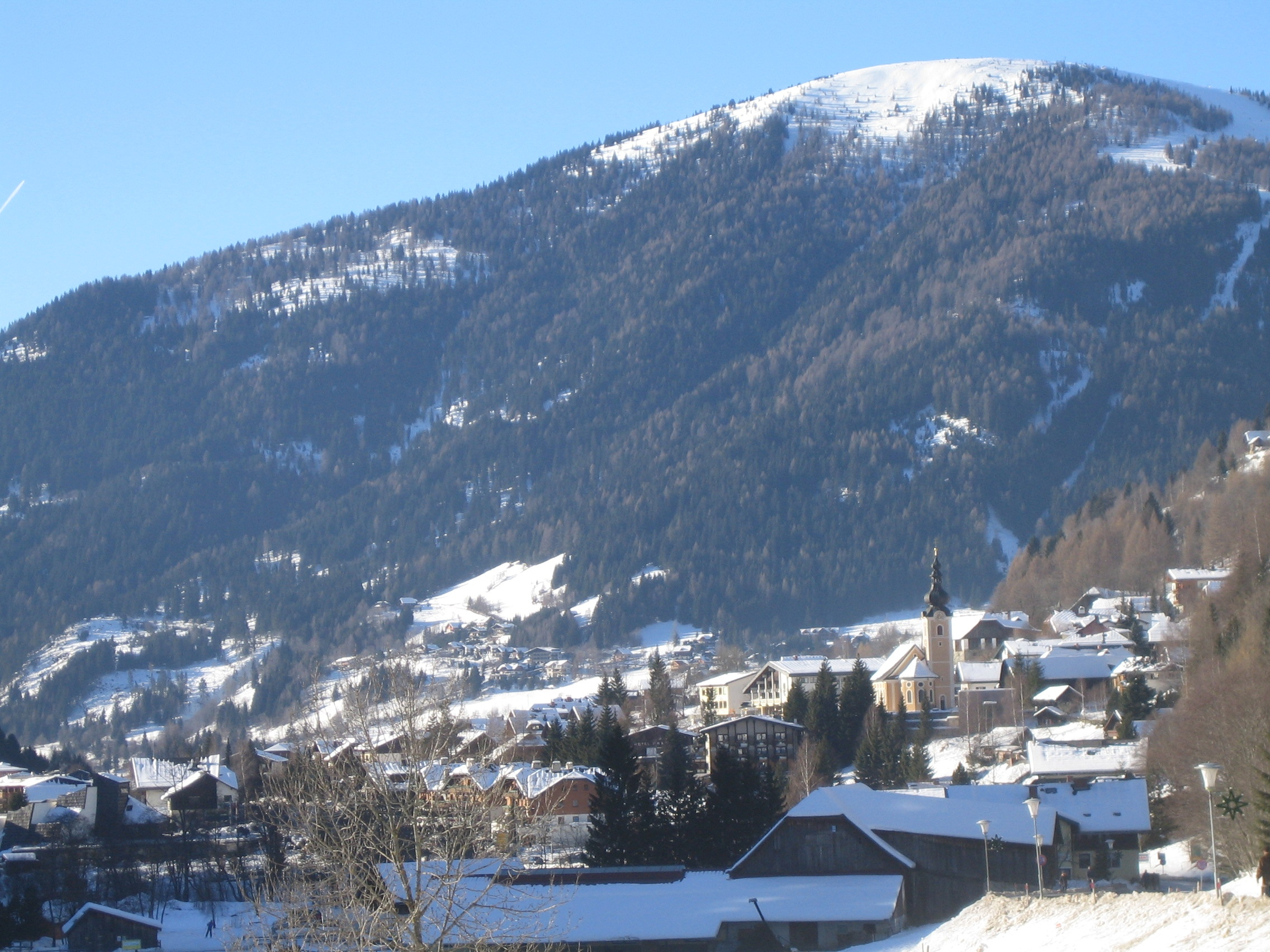 View on Bad Kleinkirchheim, Carinthia, Austria